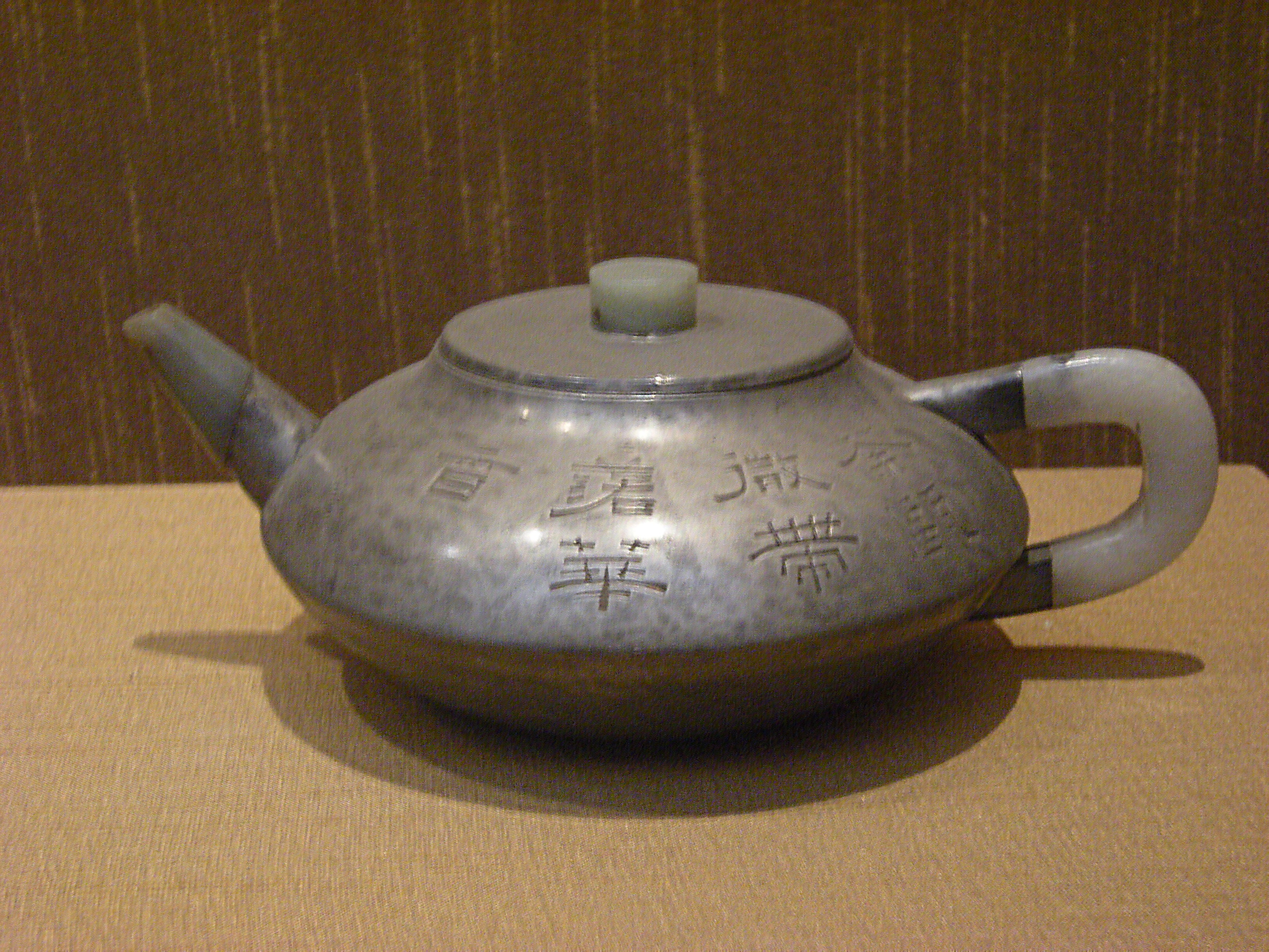 Tin teapot with “Zisha”line (made by Yang pengnian) in Suzhou museum。 Period：Qing Dynasty，（1644-1911A.D.）